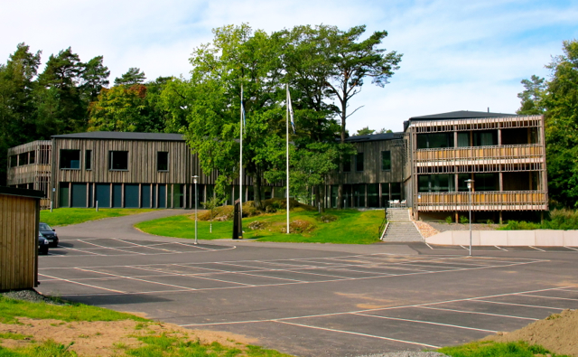 Kamratgården, the club house of IFK Göteborg situated in the Delsjö area in Göteborg (Gothenburg). The current club house was built in 2012–2013 and replaced the old club house on the same site.